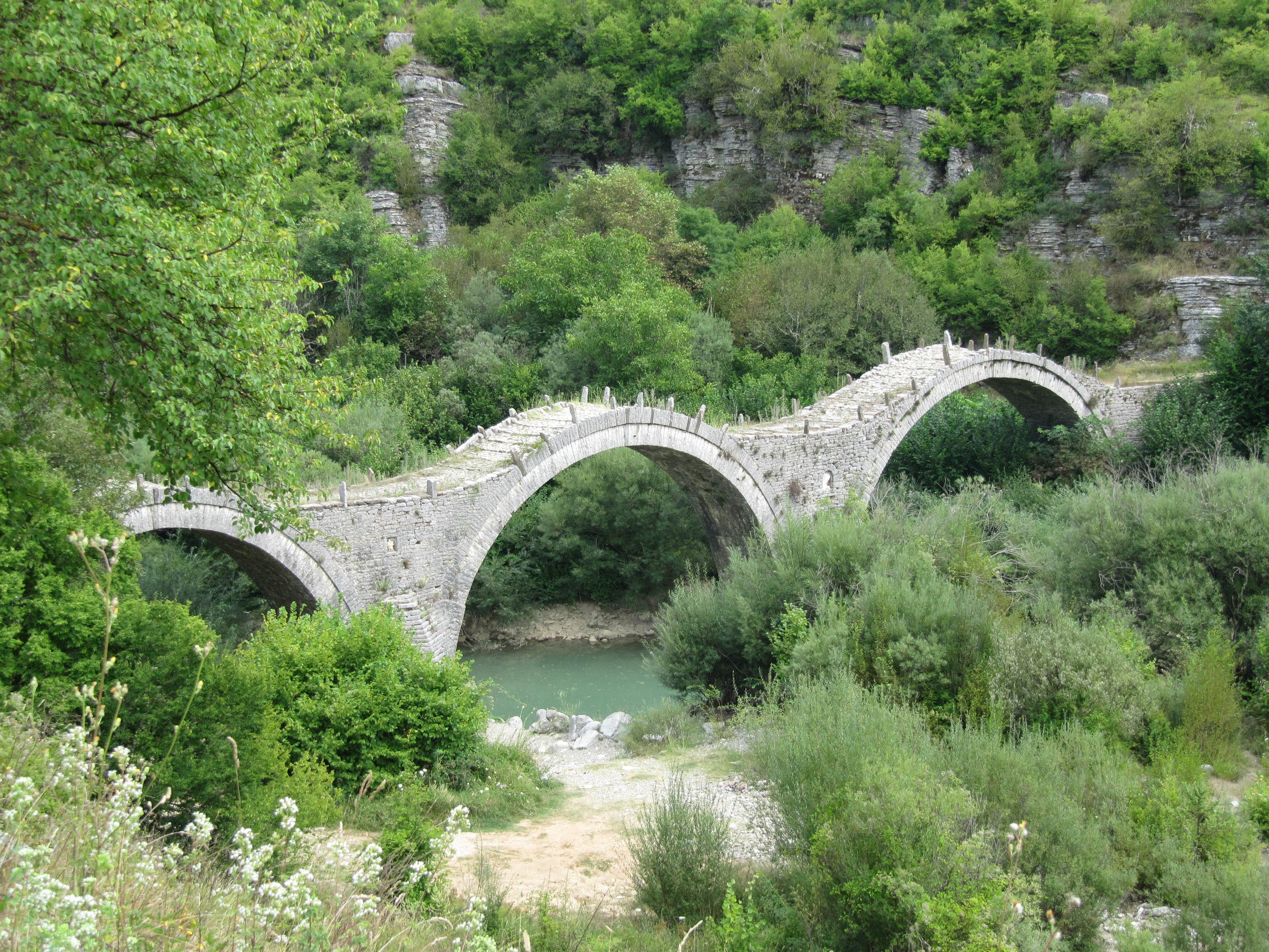 Bridge near the village of Kipoi, known as Plakida's or Kalokeriko (monk's) bridge; famous stone arch bridge in Vikos-Aoos National Park, Ioannina Prefecture, NW Greece